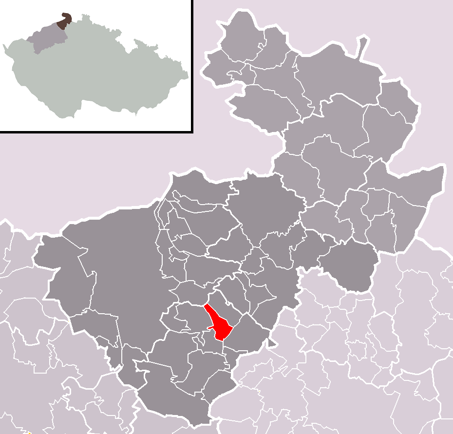 Location of Dolní Habartice municipality within Děčín District and administrative area of Děčín as a Municipality with Extended Competence.